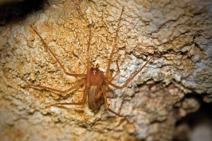 Trogloraptor marchingtoni (Female); Josephine County, Oregon